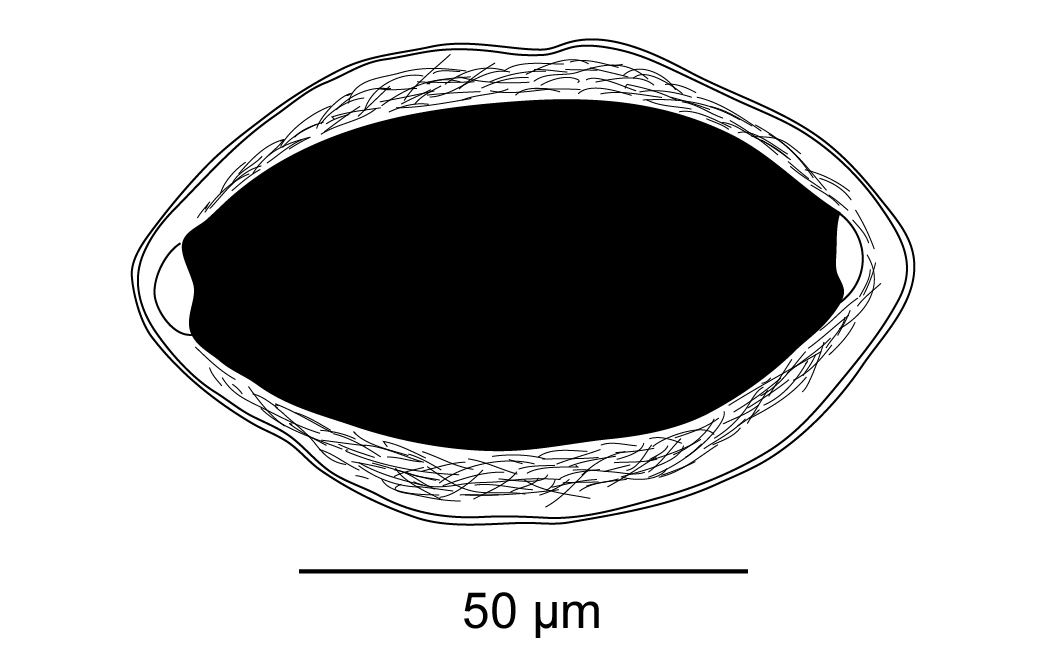 Egg of Huffmanela ossicola Justine, 2004 (Nematoda, Trichosomoididae), parasite in the fish Bodianus loxozonus, New Caledonia